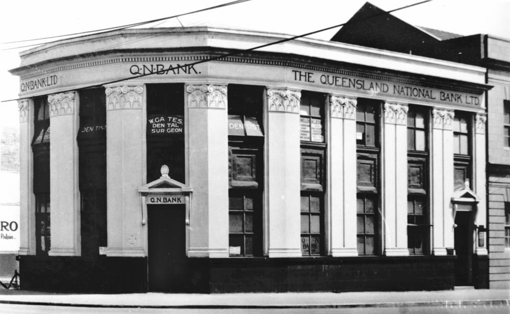 Queensland National Bank building, South Brisbane, ca. 1928. Built on the corner of Grey and Melbourne Streets, South Brisbane and opened on 22 May 1928.